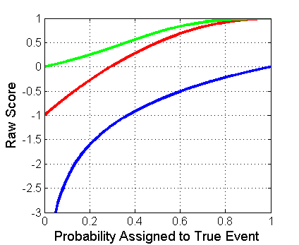 This shows three proper scoring rules; Quadratic (red), Spherical (green) and logarithmic(blue)